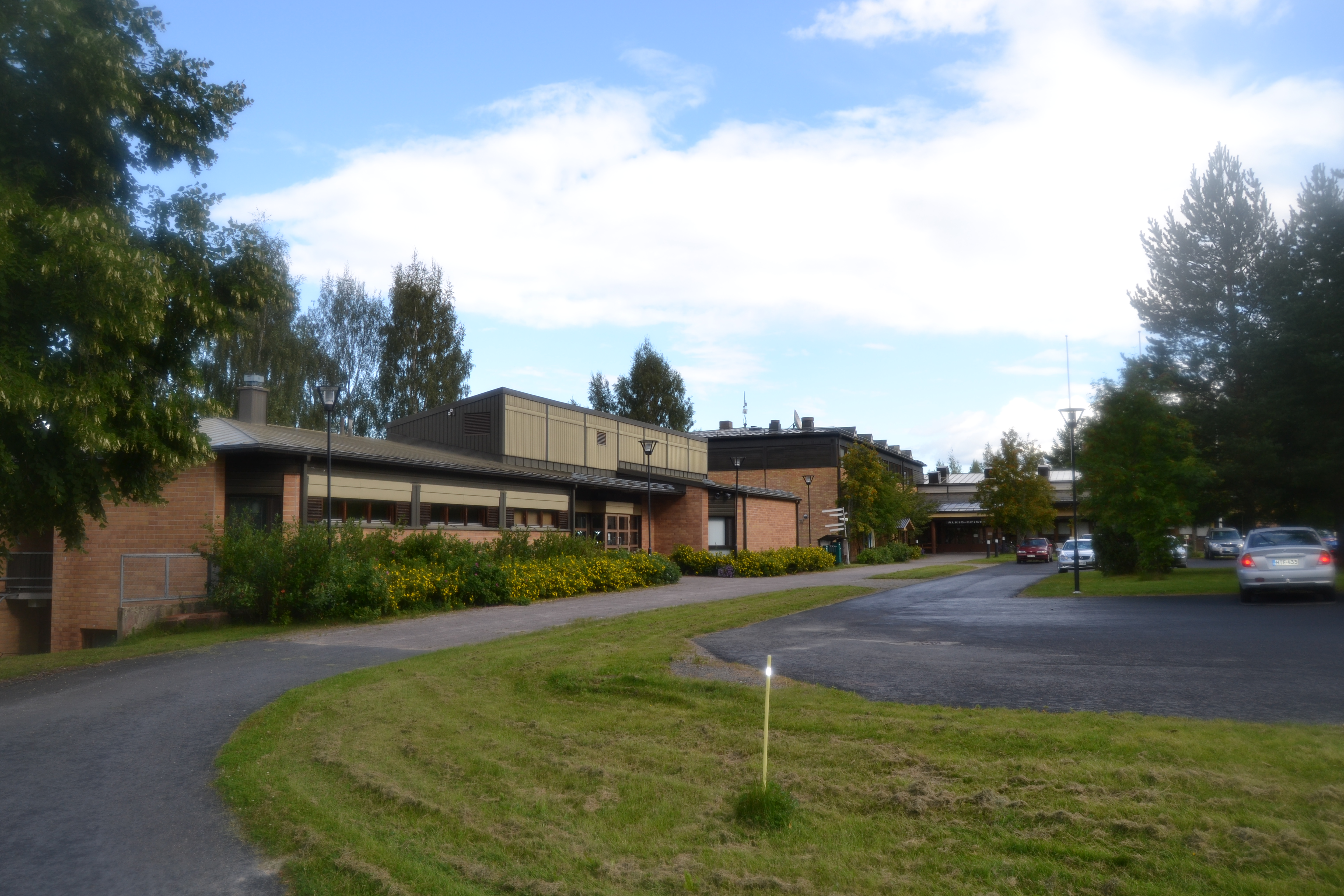 Alkio Institute in Korpilahti, Jyväskylä, Finland